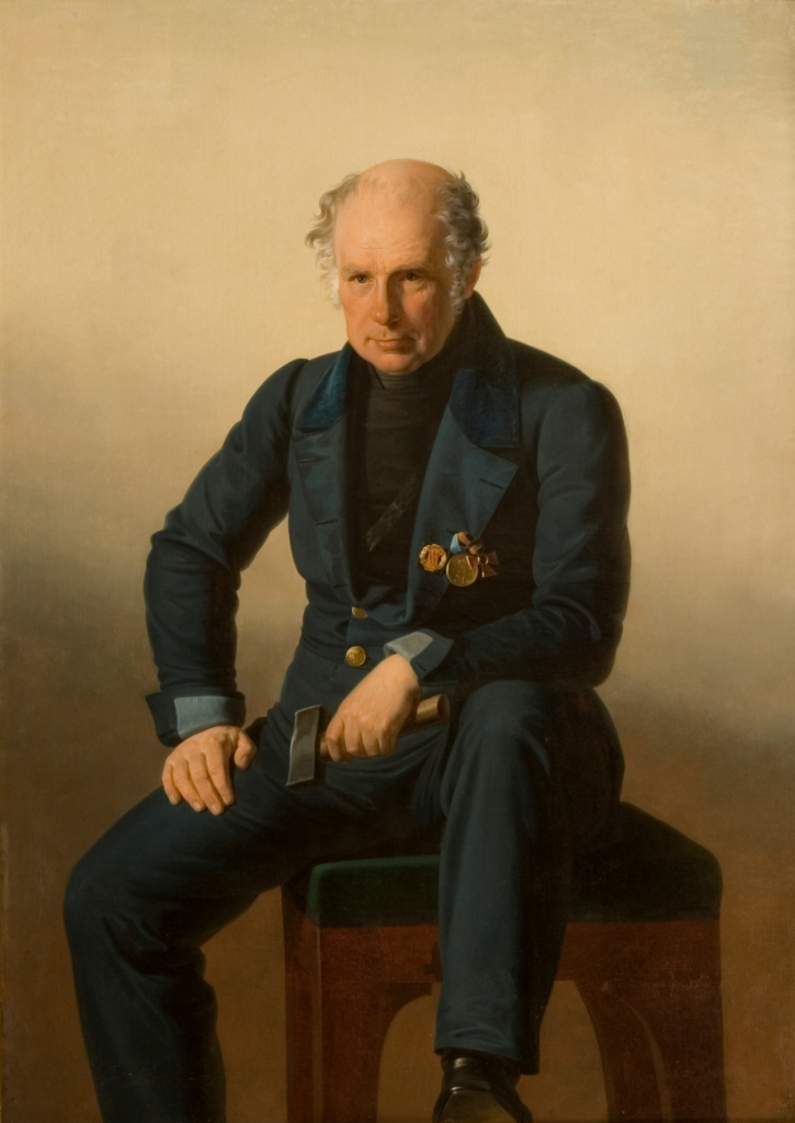 Portrait of a Russian sculptor of the 19th century V. I. Demuth-Malinowski (1779-1846)